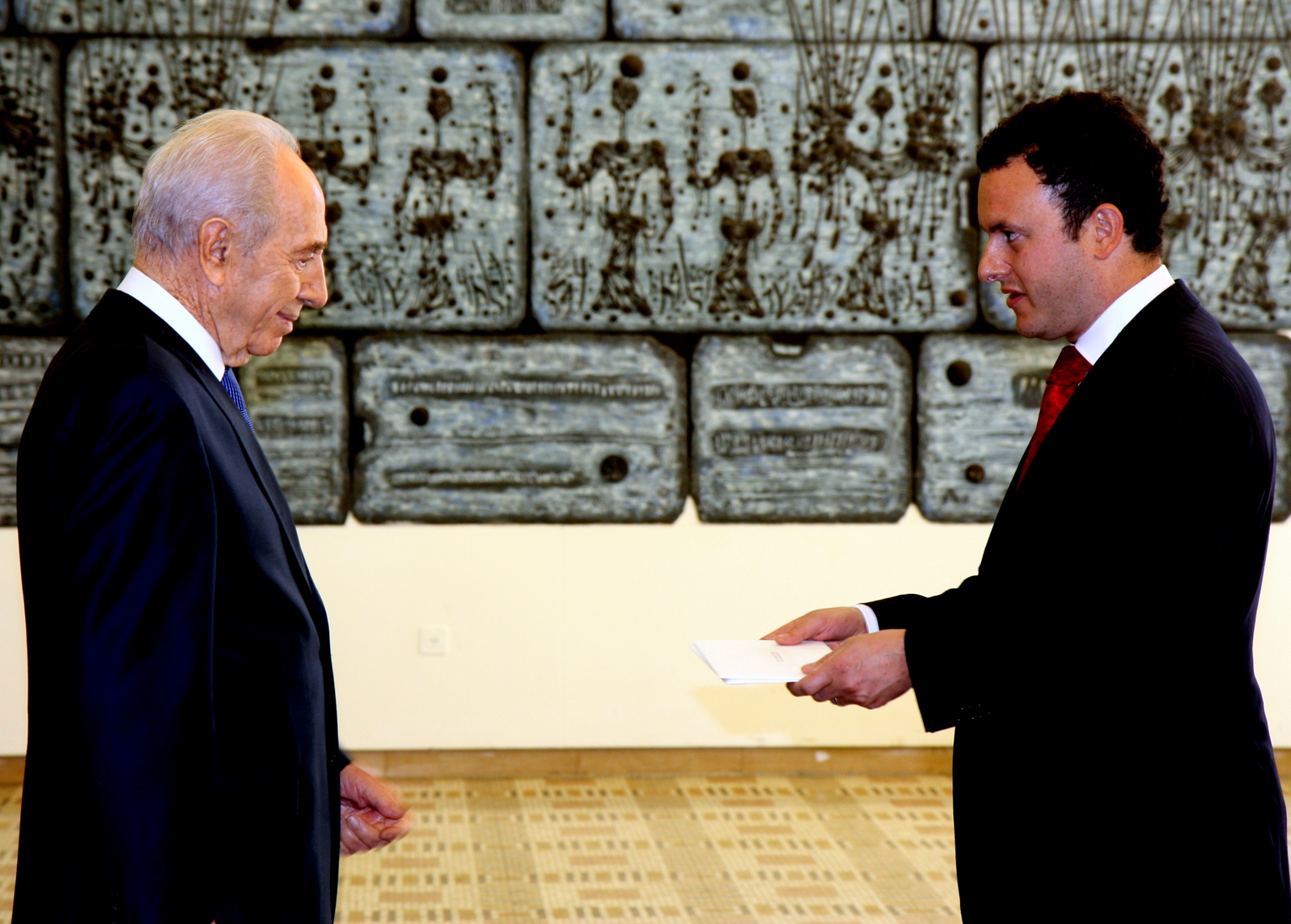 Ambassador presents his credentials